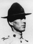 From a Military Sealift Command website about namesakes of ships. URL: [1]